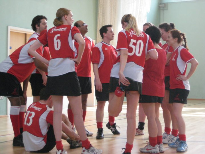 warm up 2010